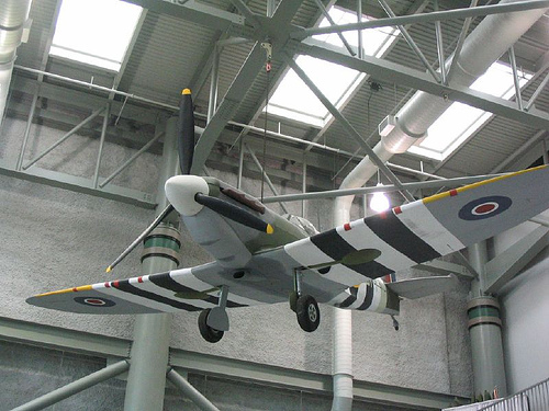 Airplane in D-Day Museum, New Orleans